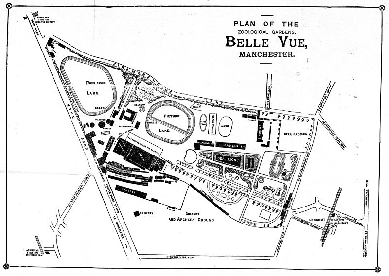 Official guide to the Zoological Gardens, Belle Vue, Manchester.